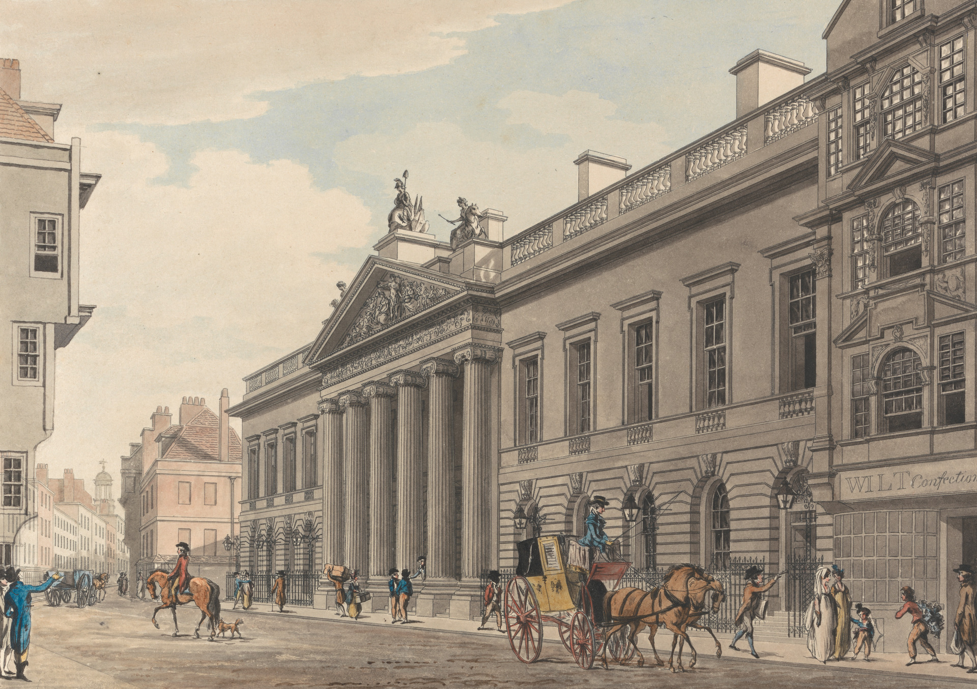 "East India House," by Thomas Malton the Younger (1748-1804), watercolour over etched outline. 8 1/2 in. x 11 15/16 in. (21.6 cm x 30.3 cm). Courtesy of the Paul Mellon Collection, Yale Center for British Art, Yale University, New Haven, Connecticut.